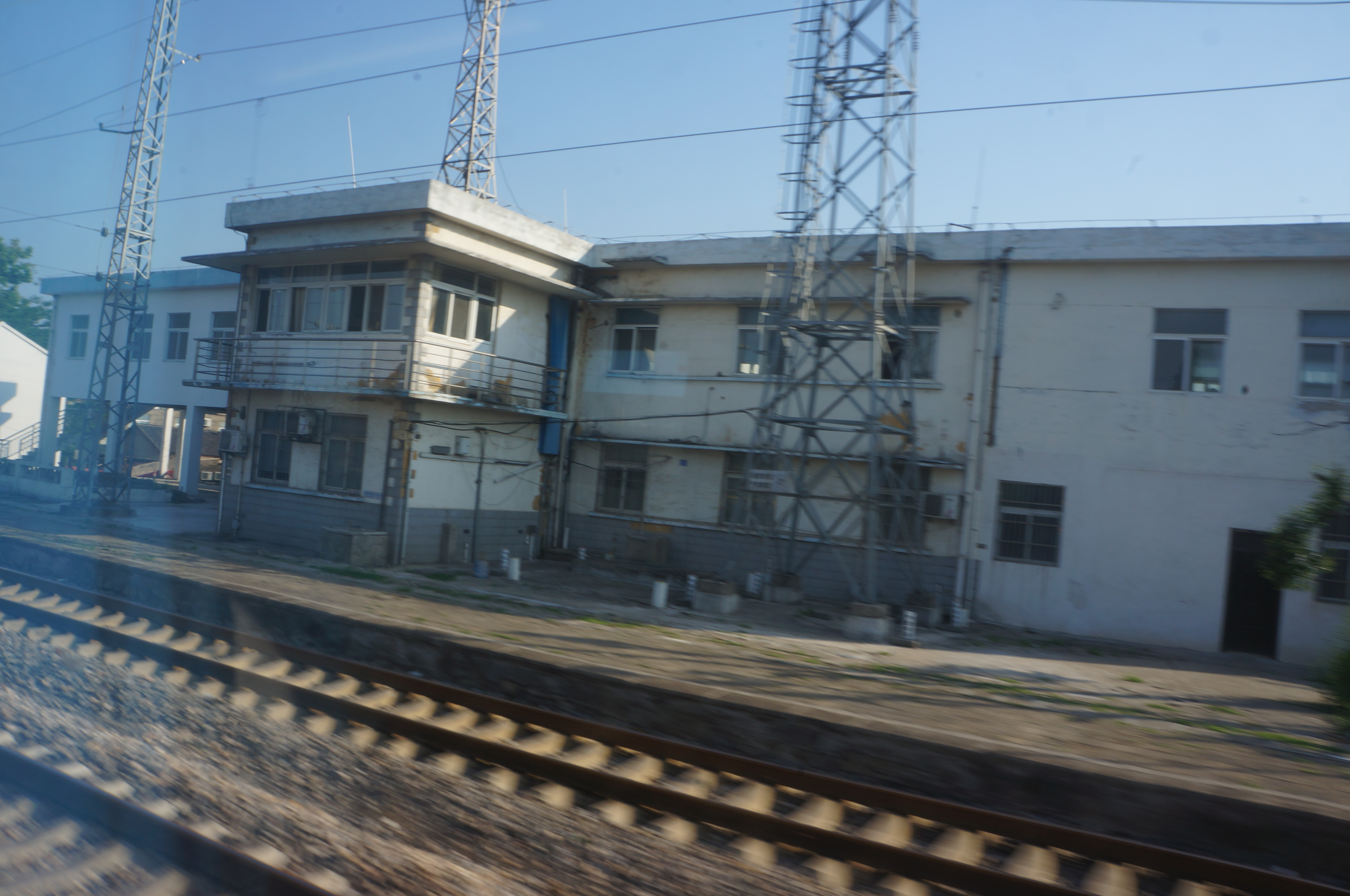 201705 Conductor of Jiulonggang Station...not Kowloon Station or "Wuhunan Station"